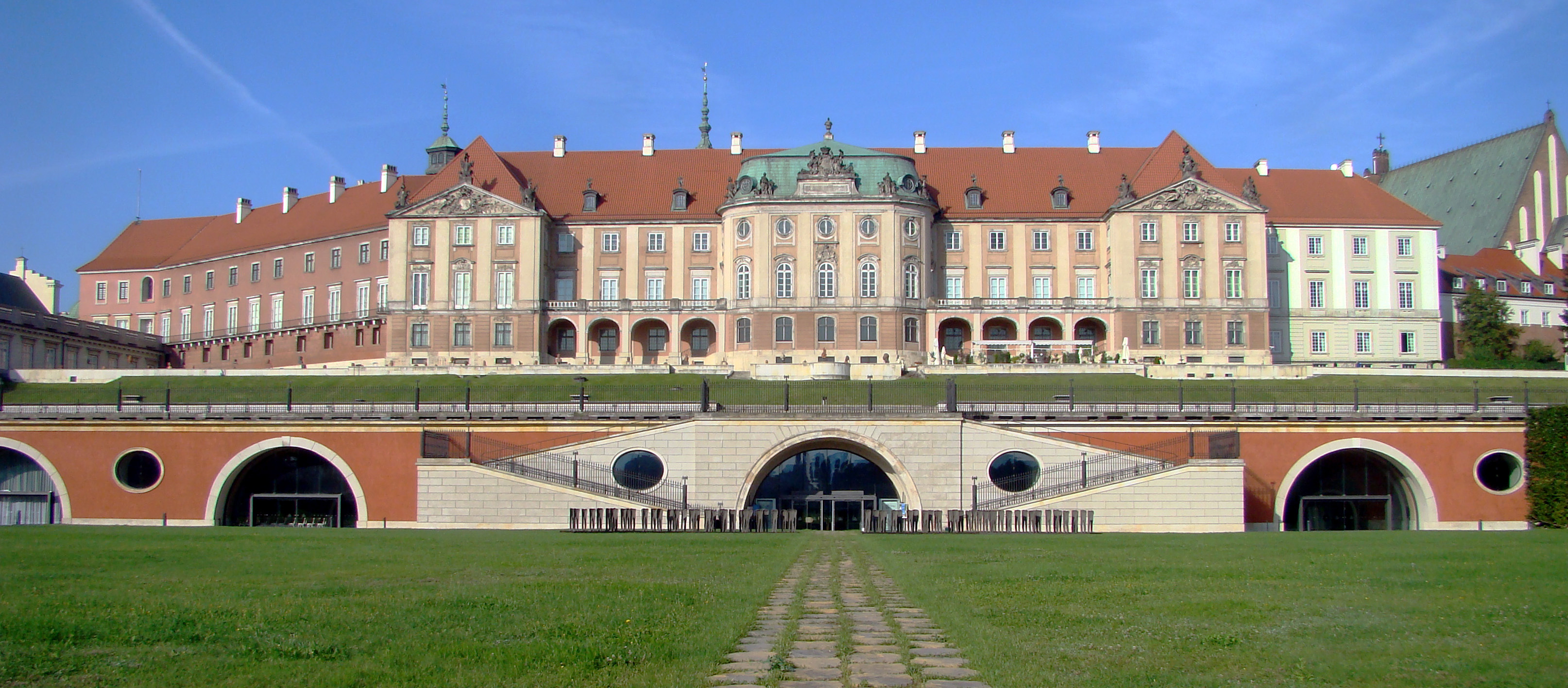 Eastern facade at the Warsaw Royal Castle over the Kubicki Arcades